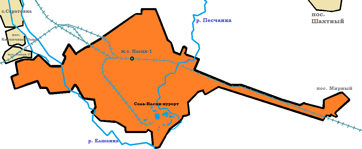 Map Of Sol-Iletsk